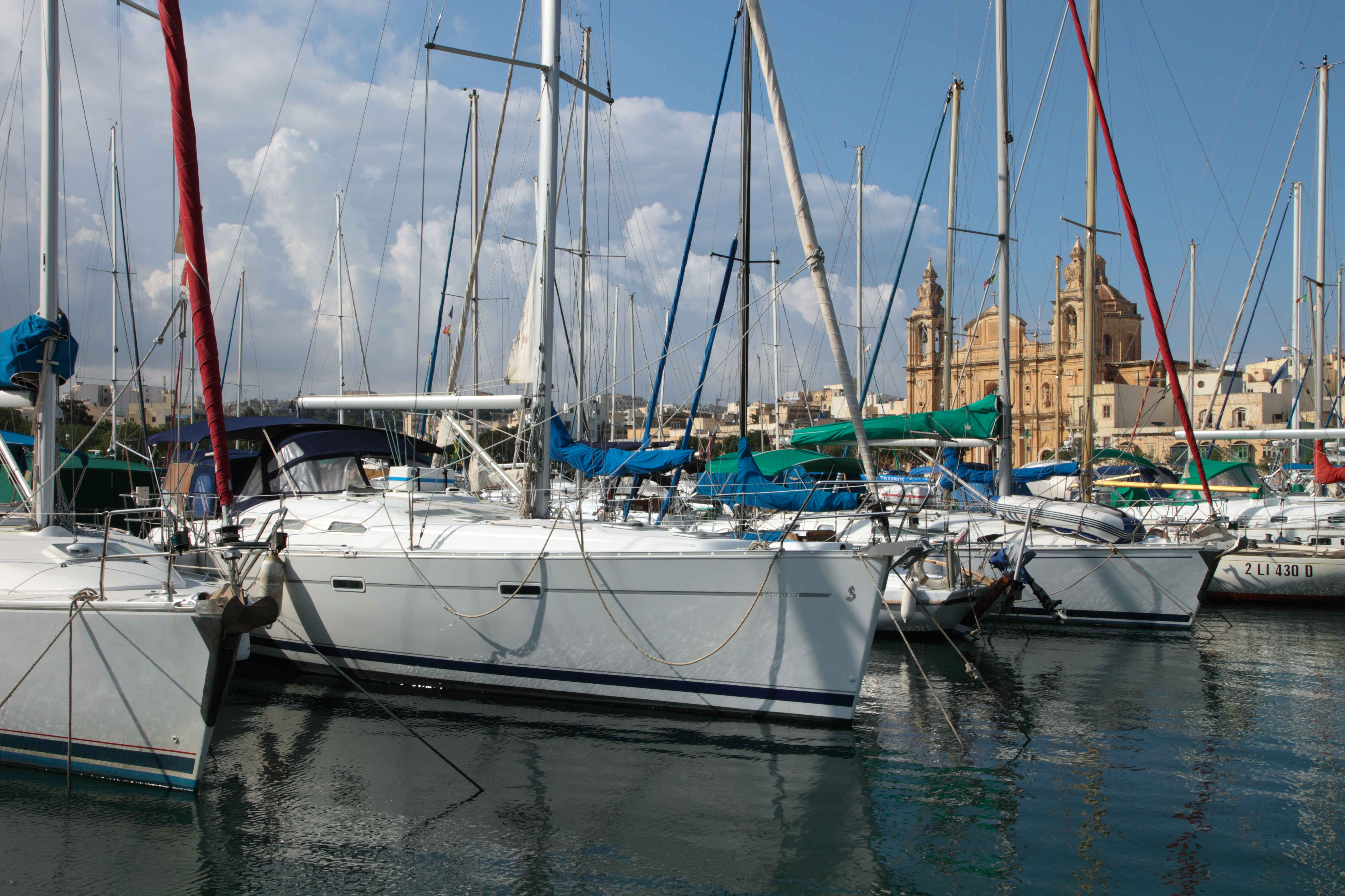 Msida Marina, boats and yachts in harbor